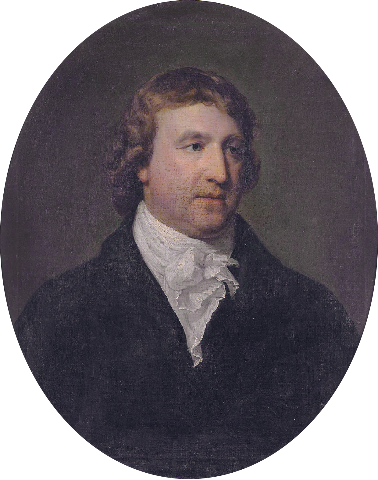 William, 1st Baron Downes oil on canvas 70 x 57 cm inscrbed verso: No. 7 The honble Justace Downs [sic]